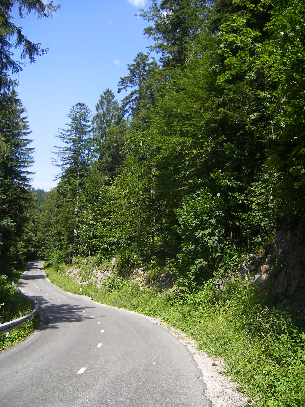 Mountain road at Hrušica (Ajdovščina municipality)